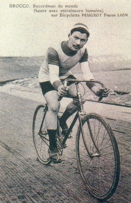 Maurice Brocco (Fismes, January 28, 1885 – Erigné, June 26, 1965) was a French professional road bicycle racer between 1906 and 1927.